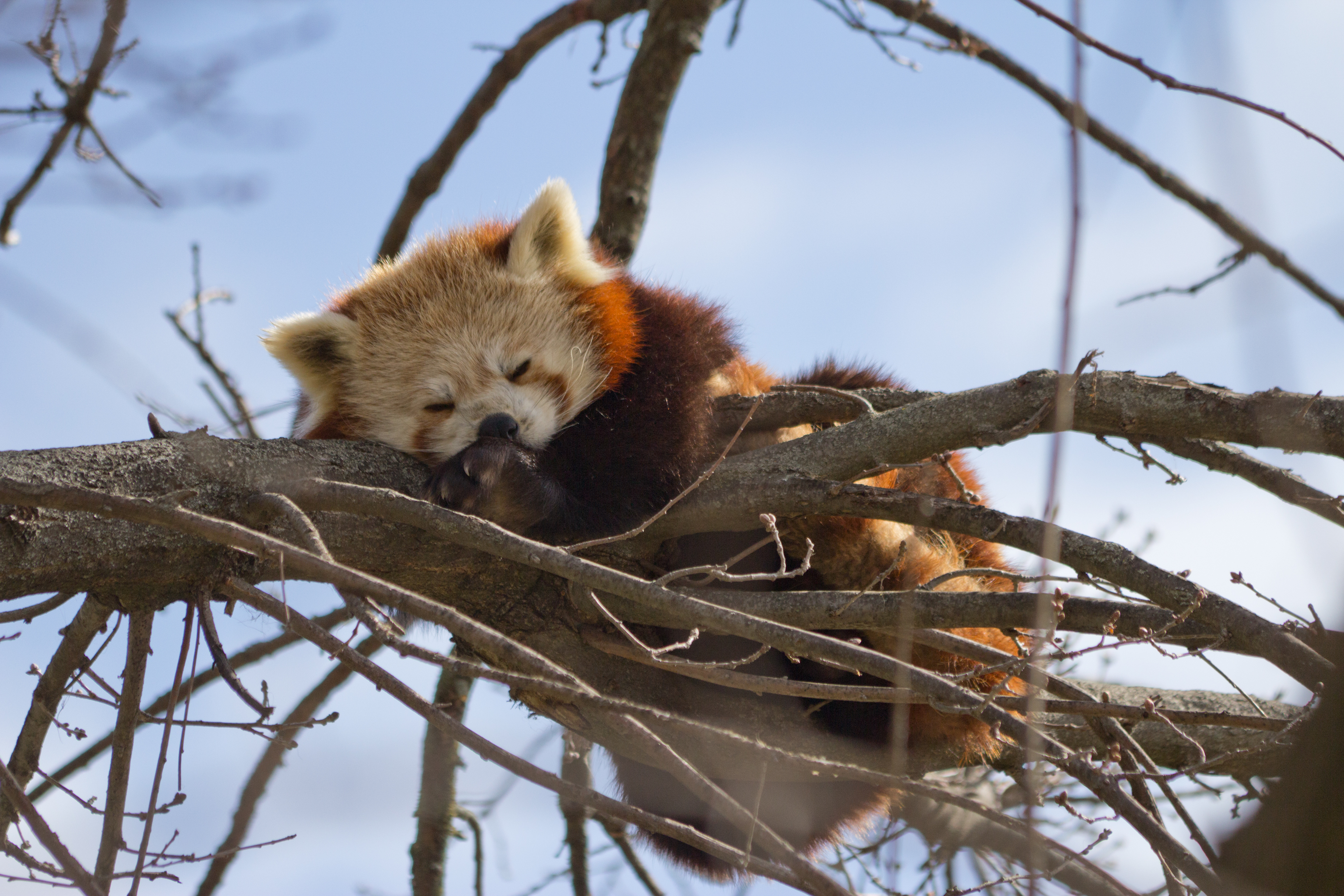 Red panda (Ailurus fulgens) at the Zoo of Madrid, Spain.